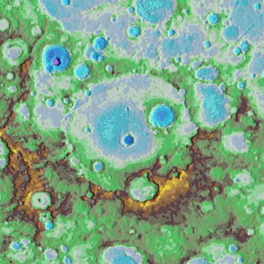 Topographic map of Beethoven Basin on Mercury. Blue is low and red is high.